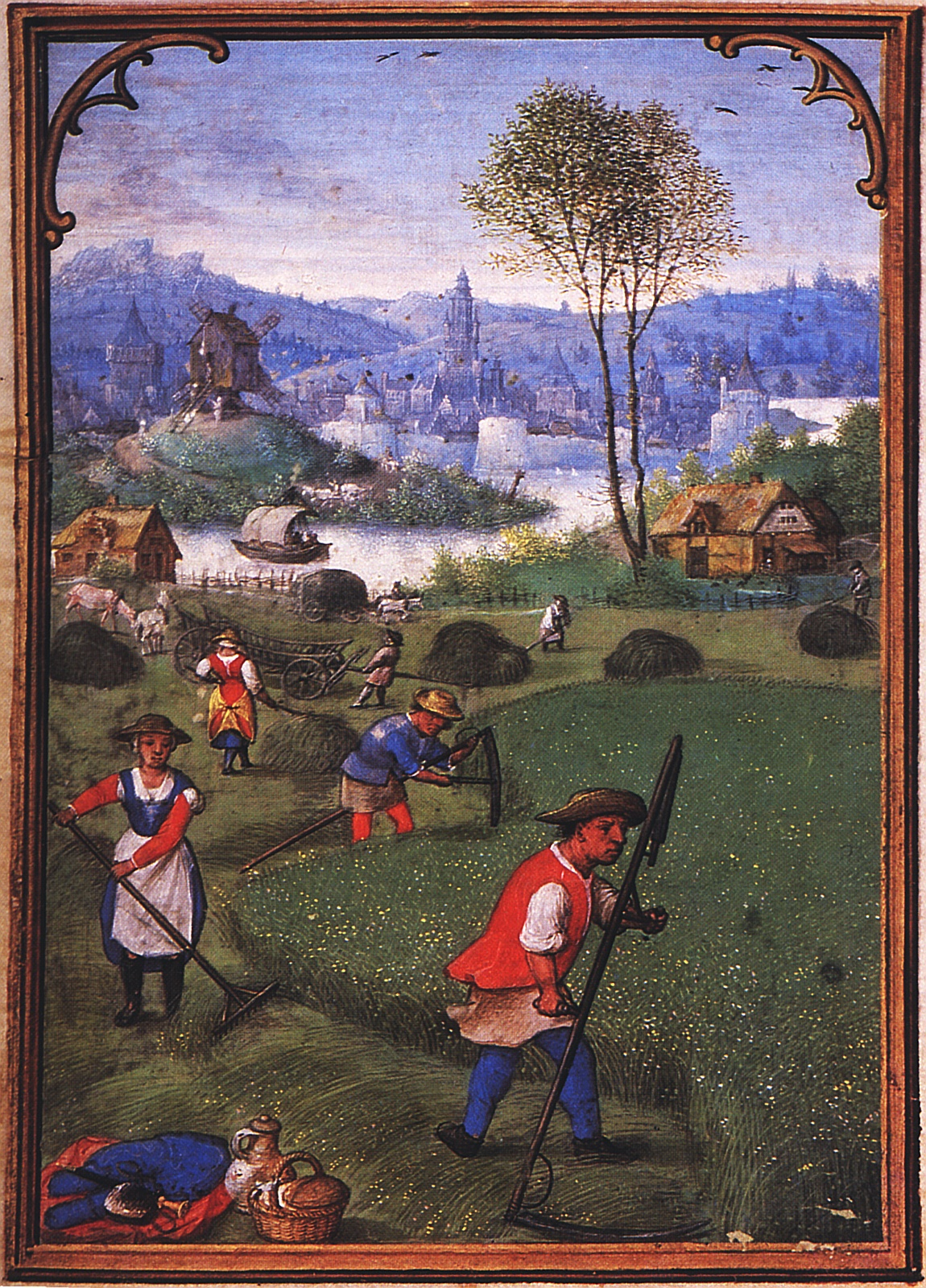 Labors of the Months: July, from a Flemish Book of Hours (Bruges)